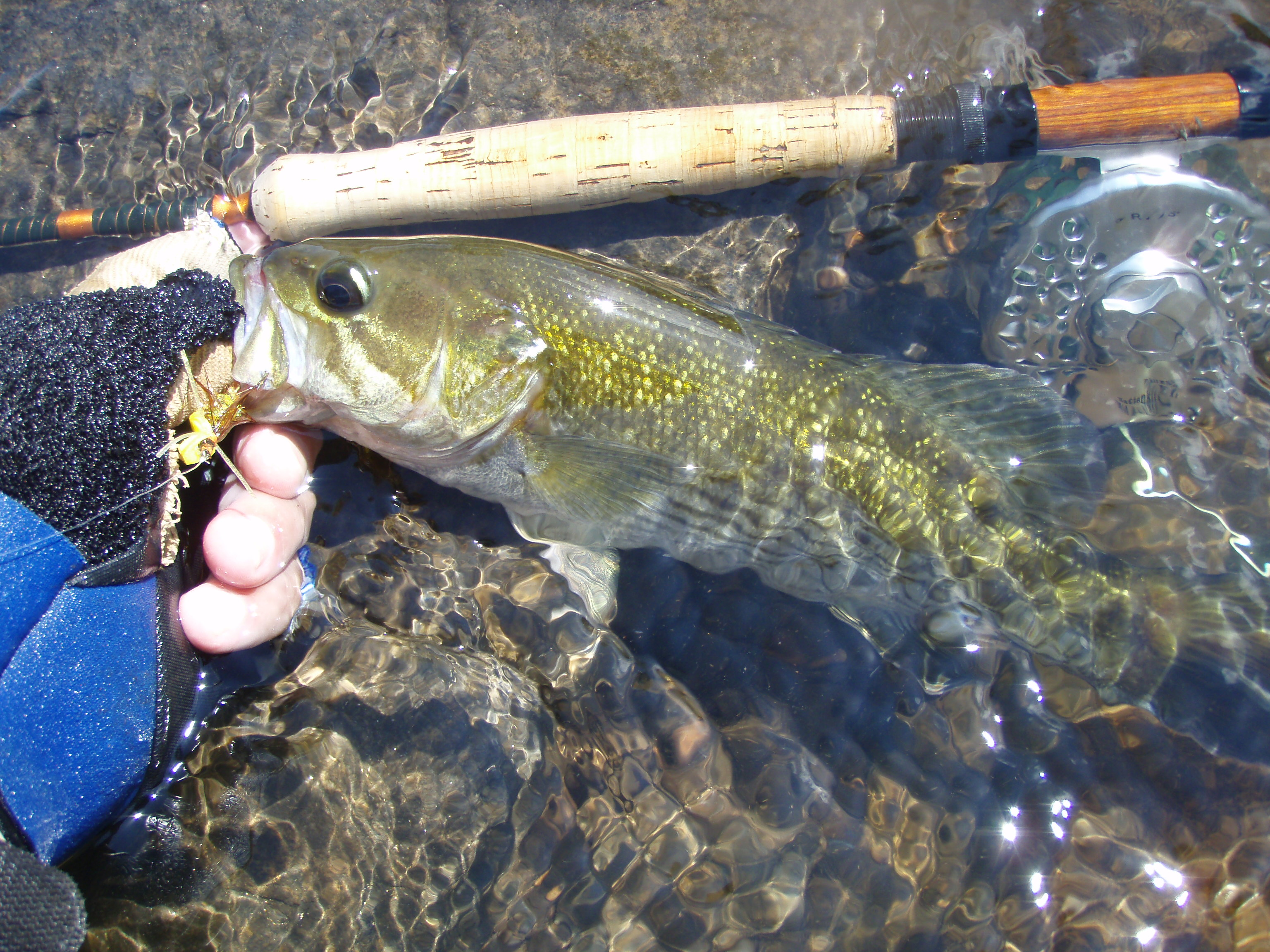 Redeye Bass (Micropterus coosae), Tallapoosa River, Tallasee, Alabama